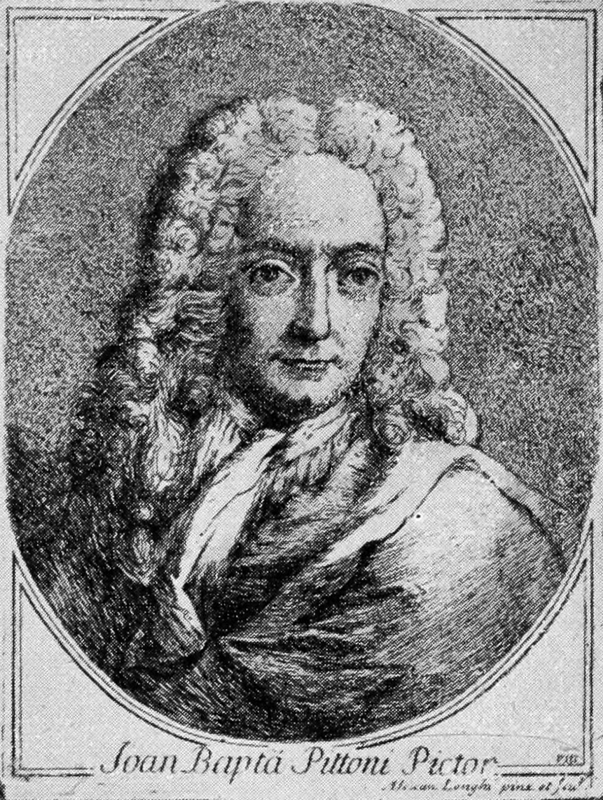 Portrait of Giambattista Pittoni by Alessandro Longhi Published in: Alessandro Longhi (1762). Compendio delle vite de' pittori veneziani istorici più rinomati del presente secolo con suoi ritratti tratti dal naturale. Venezia: the author. Reproduced in: Laura Coggiola Pittoni (1907). Dei Pittoni, Artisti Veneti (in Italian). Bergamo: Istituto Italiani d'Arti Grafiche. Cropped version of File:Giambattista Pittoni, portrait from Longhi 1762.jpg